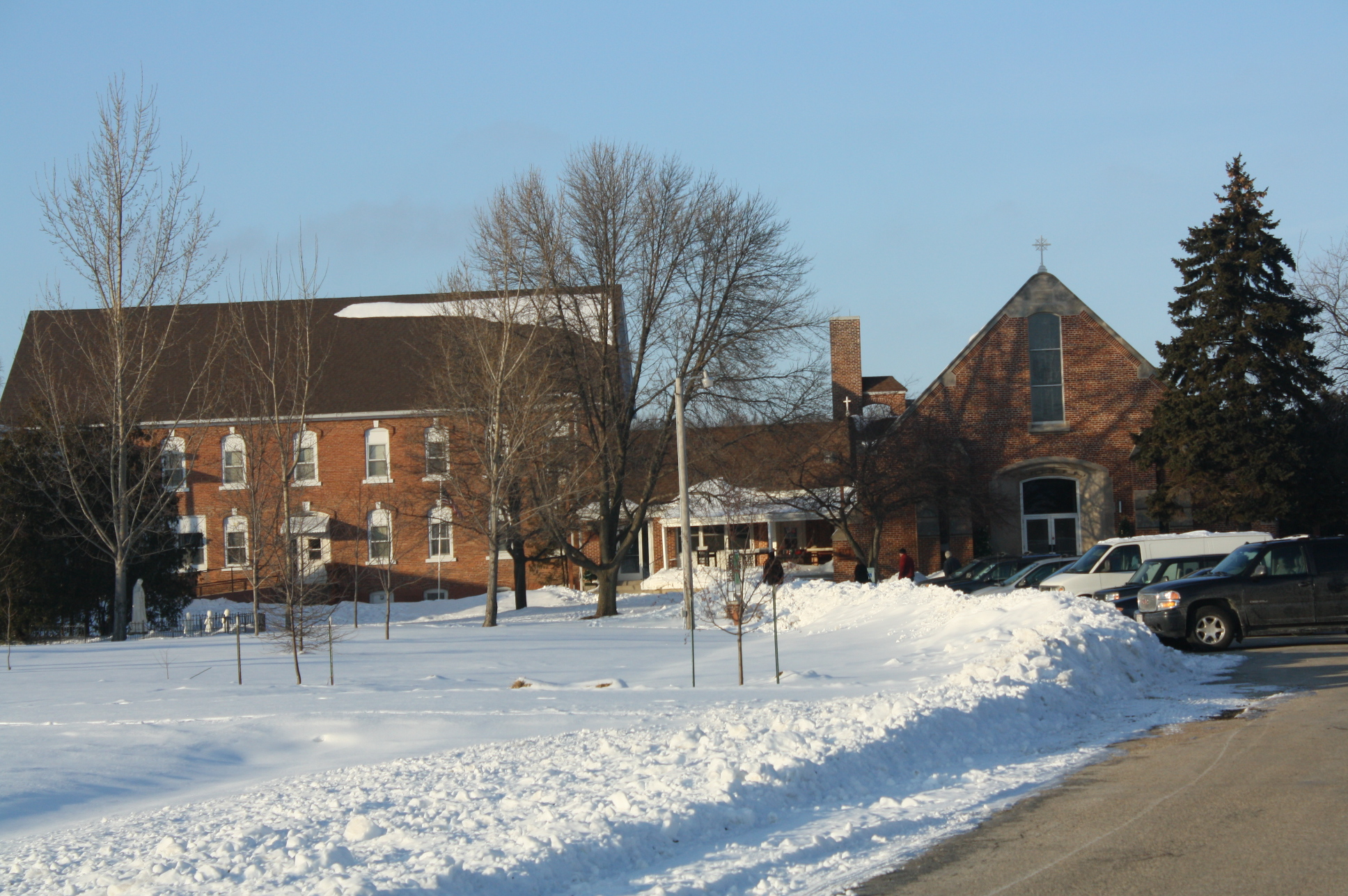 The chapel and school for Shrine of Our Lady of Good Help.